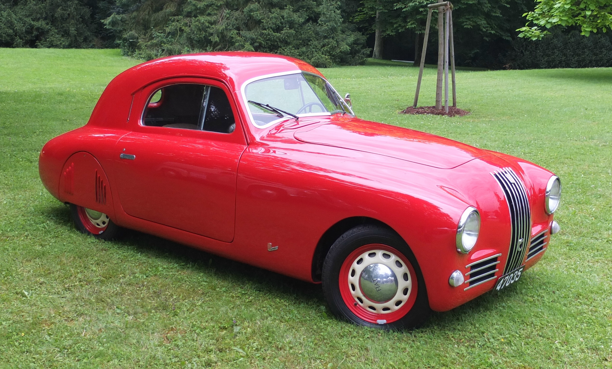 Fiat 1100 S MM, built 1947 (seen at: Concours d'Élégance in Mondorf-les-Bains, Luxembourg).